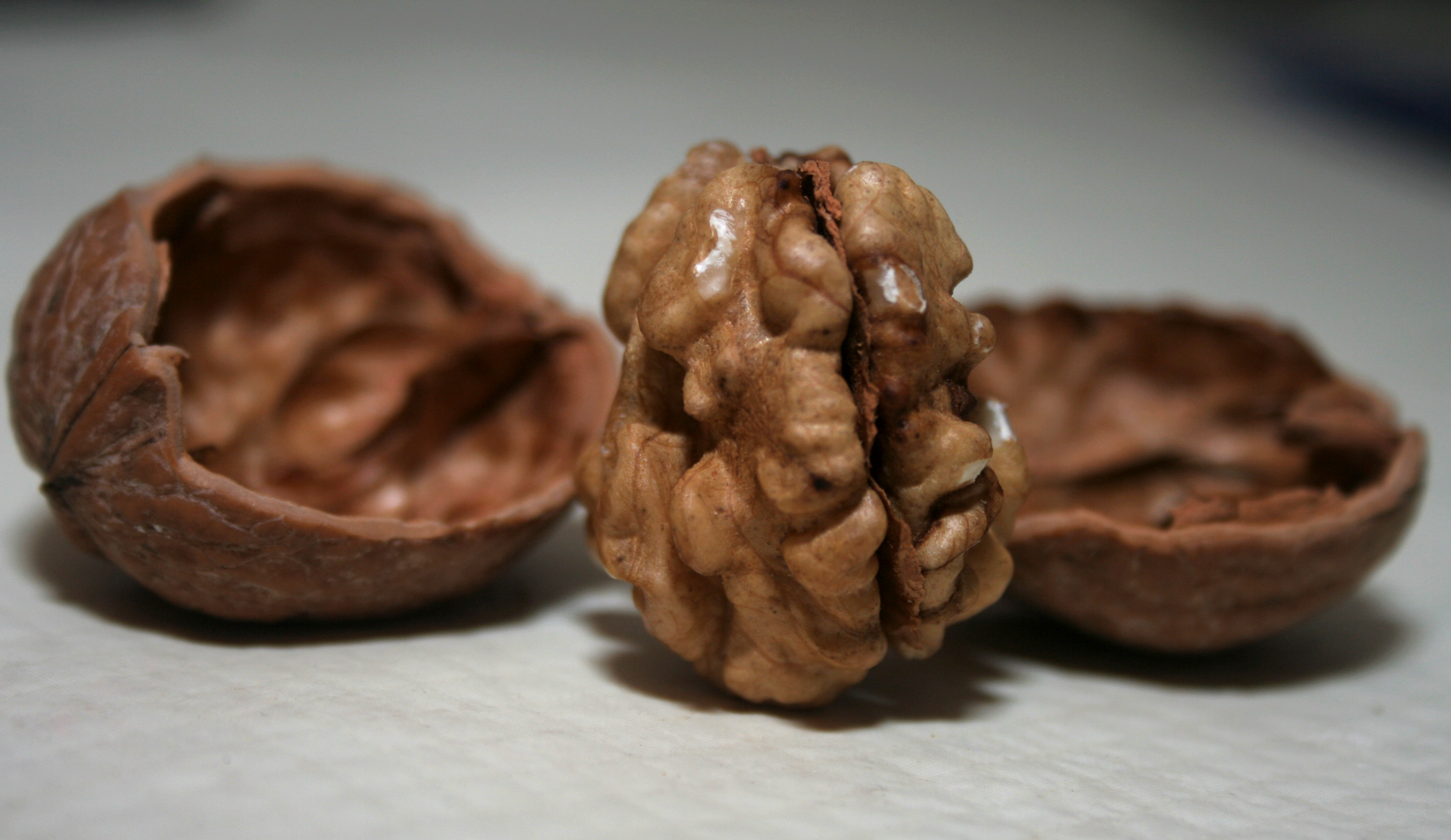 Walnut kernel removed intact and displayed with the shell from which it was removed